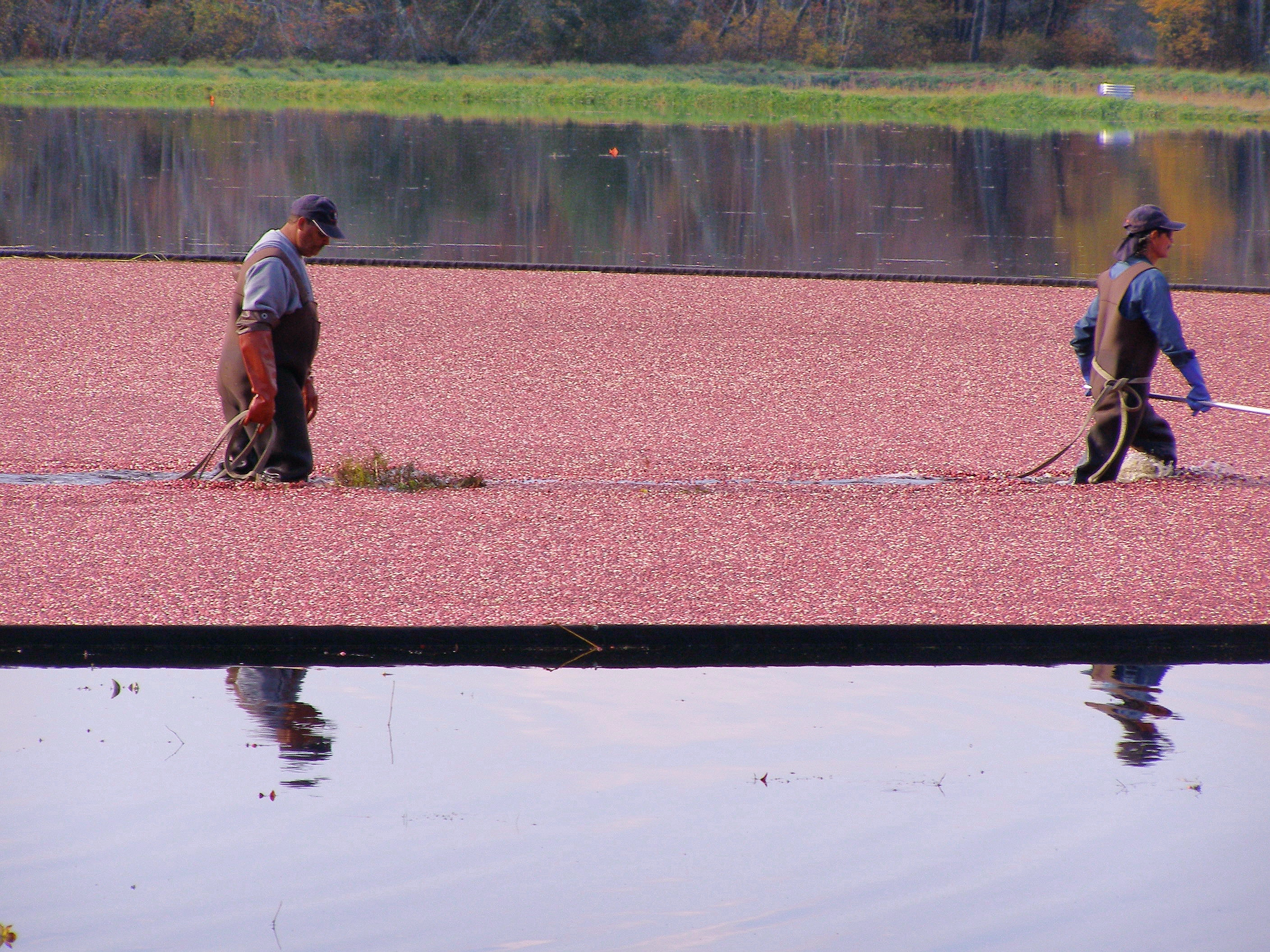 Cranberry harvest near Buzzards Bay, Massachusetts